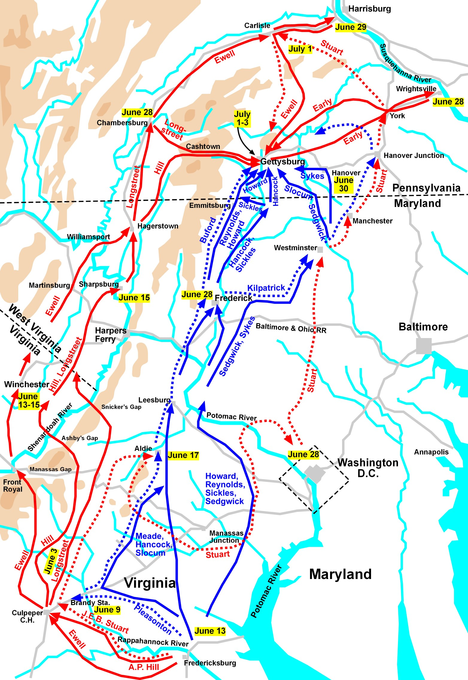 Movements of both armies from June 3 to July 3